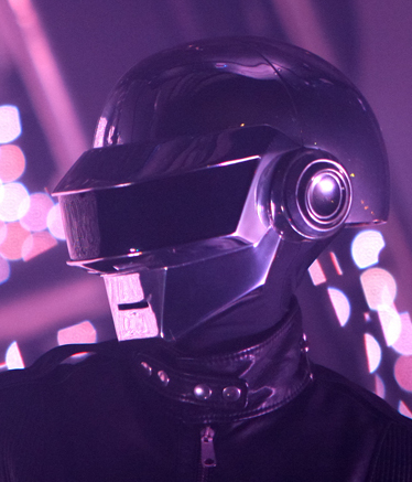 Thomas Bangalter at the 2006 Bang Music Festival in Miami, FL